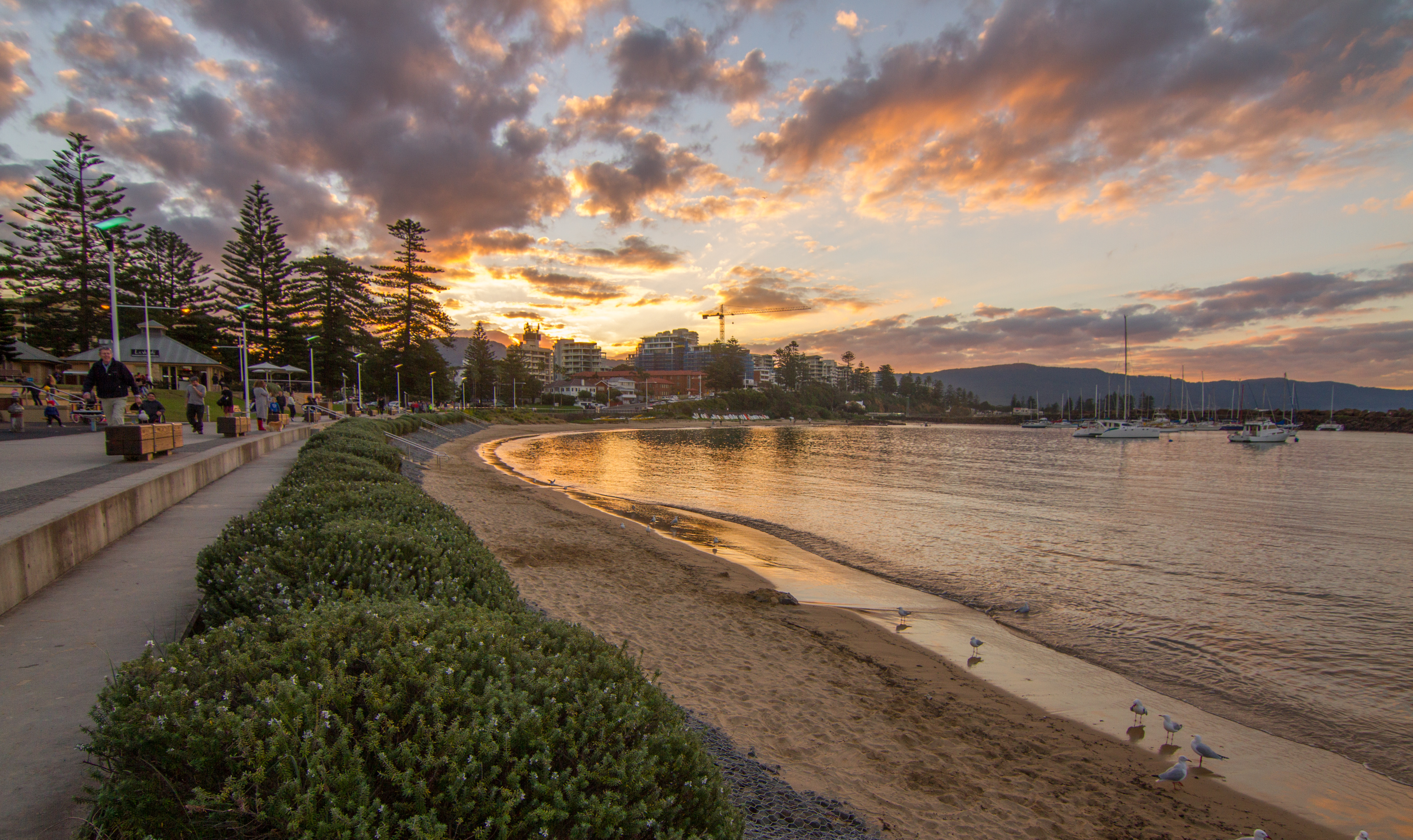 Wollongong Foreshore Park